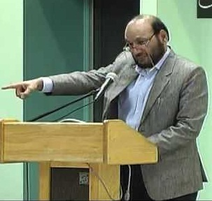 prof hasan at conference